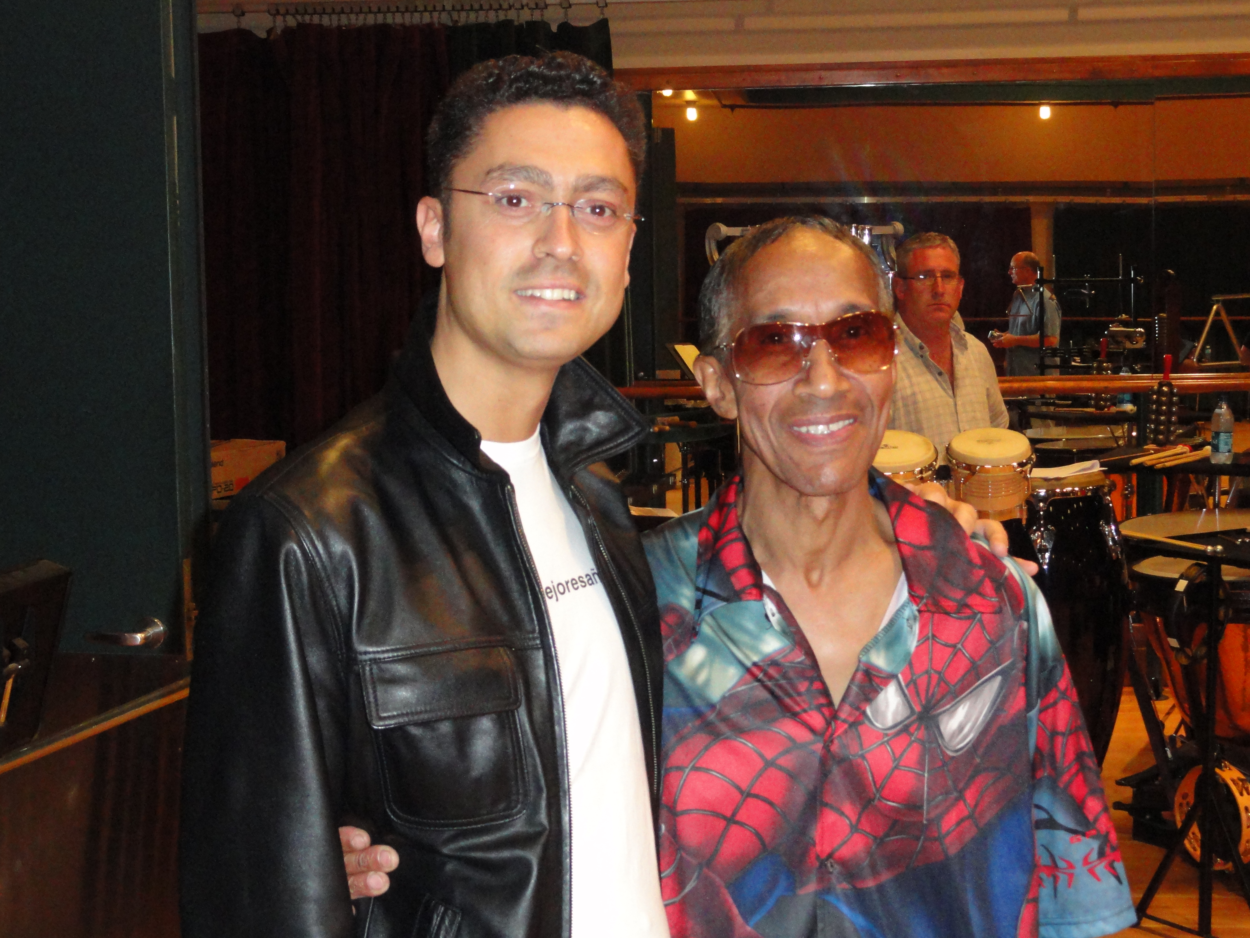 Fred Johnsons, the original bassman of the doo wop band The Marcels with Christian carrasco, the baritone from the spanish doo wop band The Earth Angels.